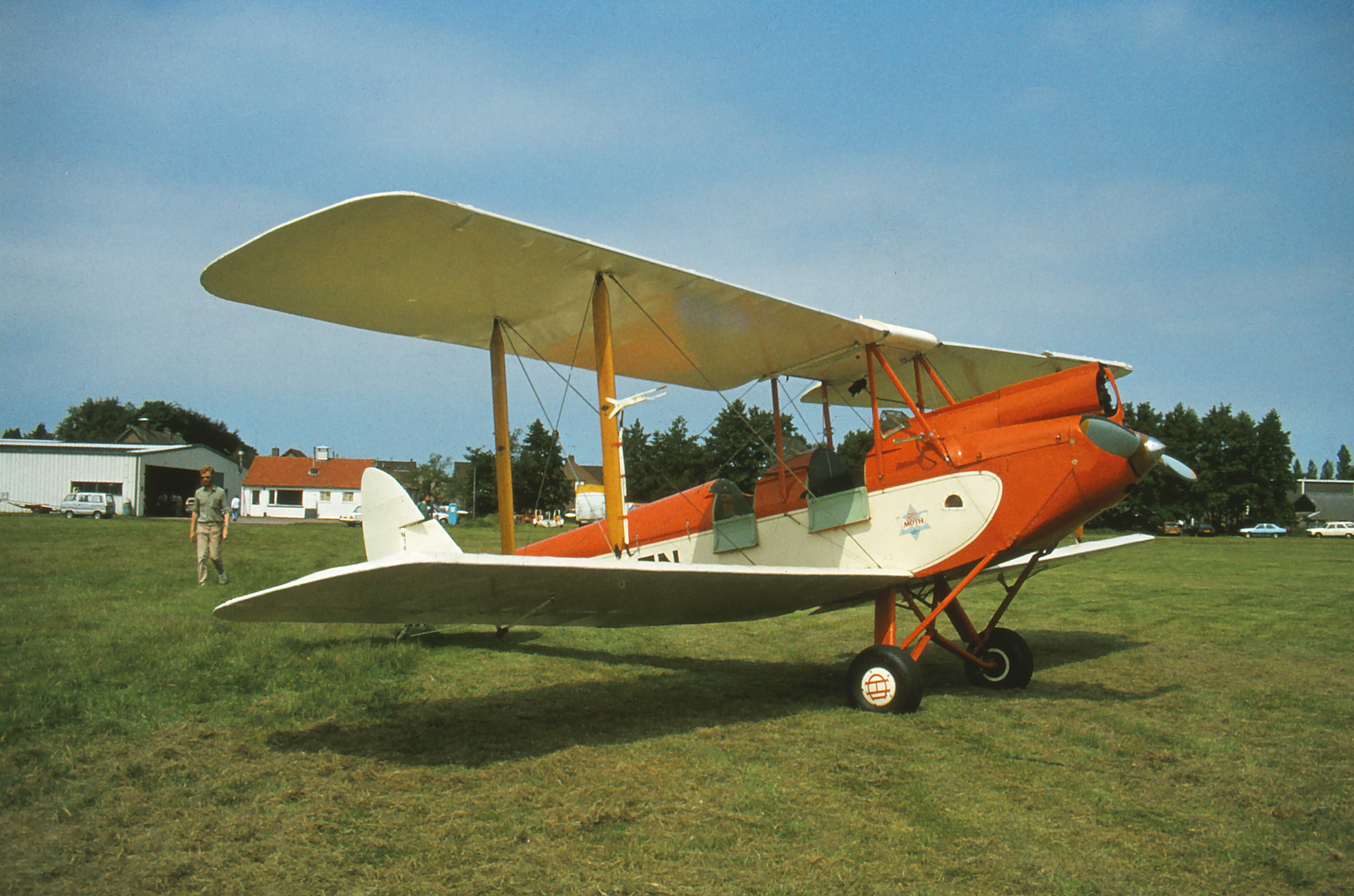 De Havilland DH.60G Gipsy Moth